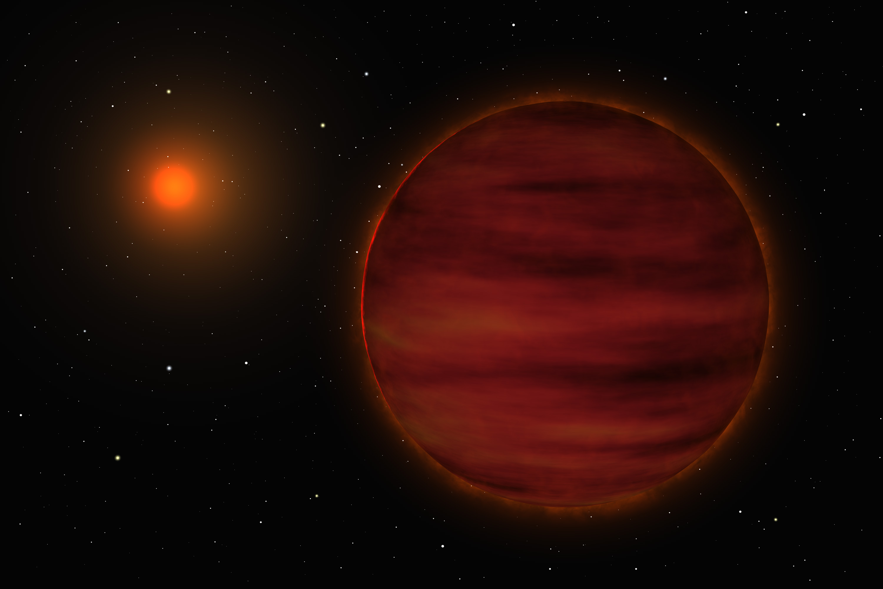 Artist's impression of the SCR 1845-6357 stellar system. The small red star is shown in the background while the newly discovered brown dwarf is at front.